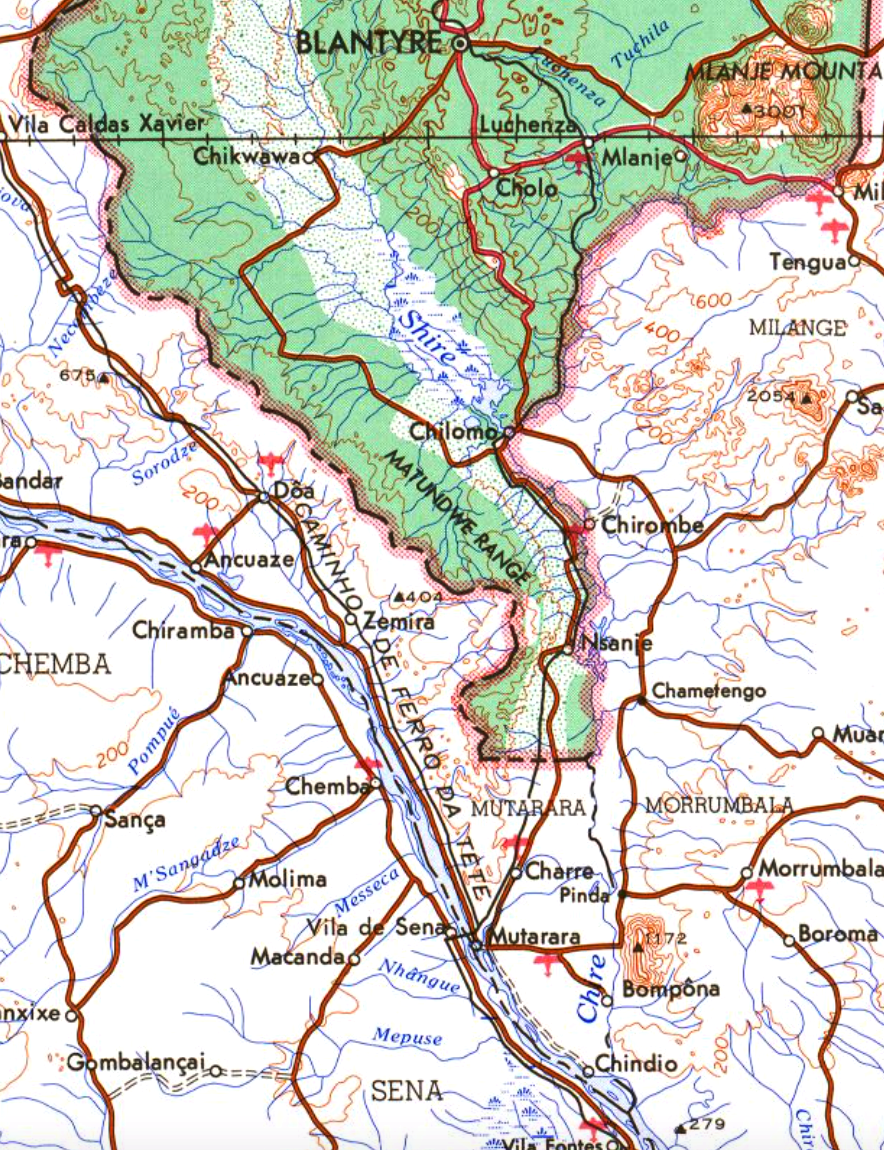 Topographic map of the Matundwe Range and surrounding area of Malawi and Mozambique, including the lower Shire River.